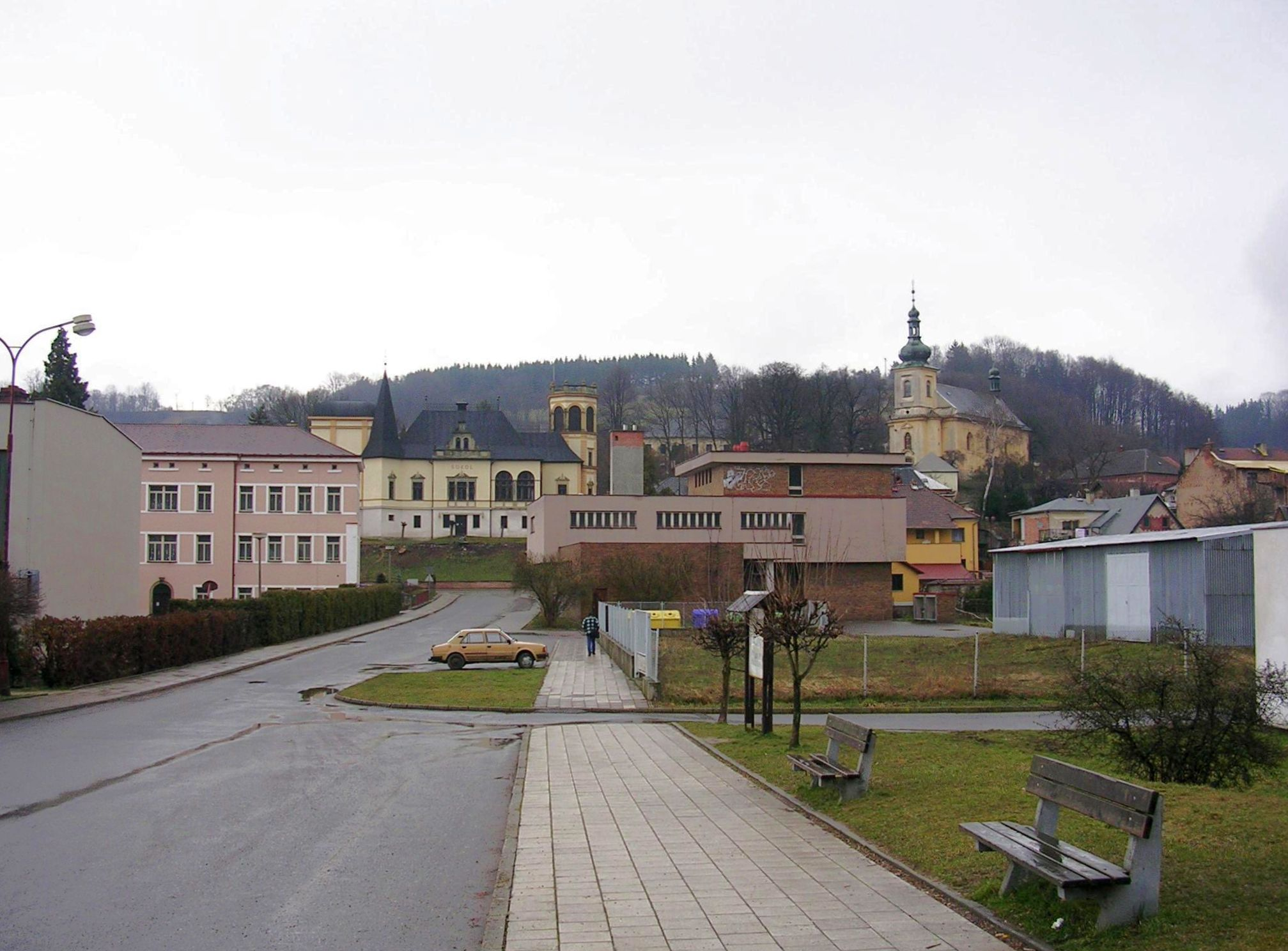 Brandýs nad Orlicí, the Czech Republic.